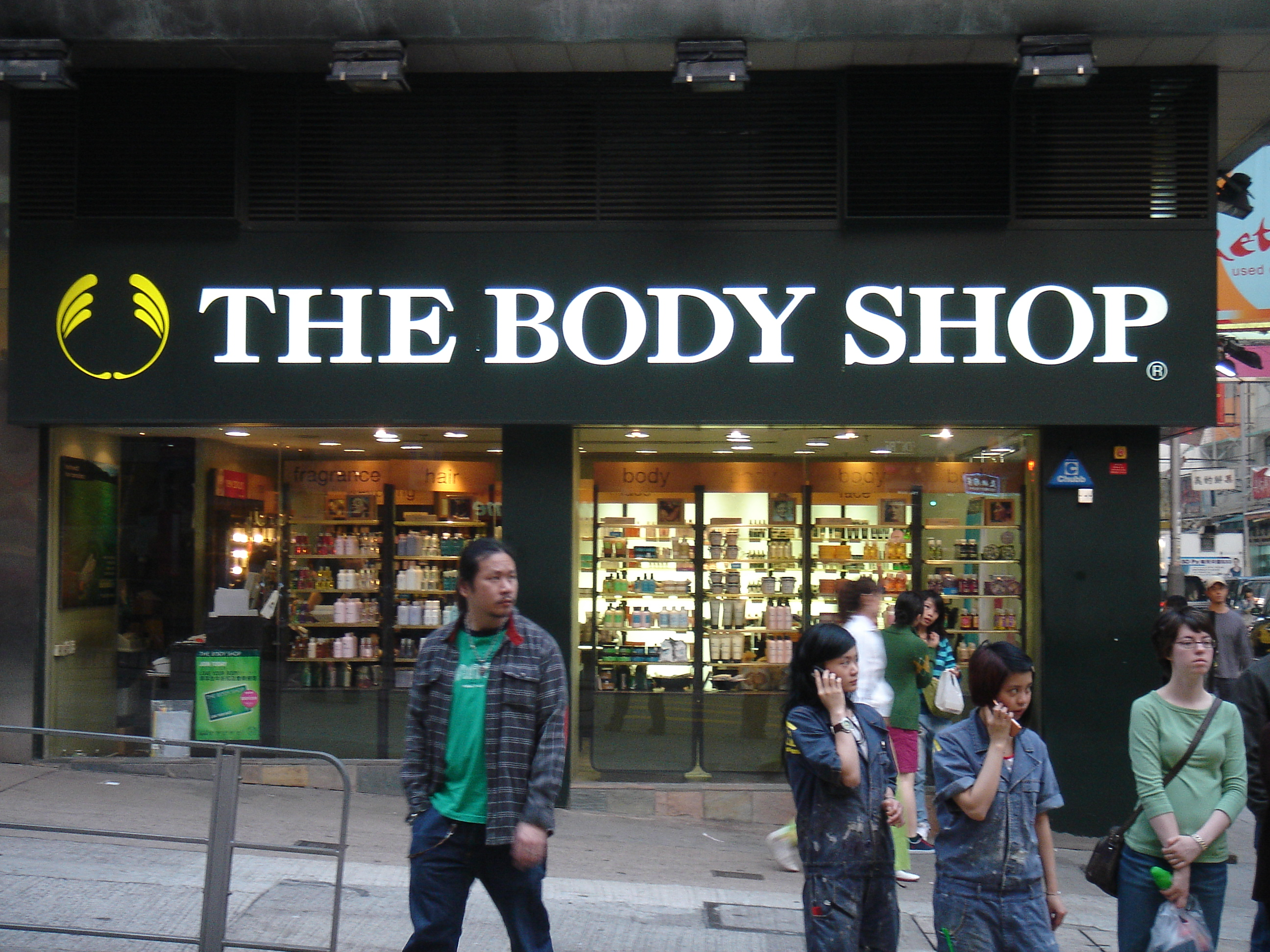 The Body Shop in Tsim Sha Tsui, Kowloon, Hong Kong.